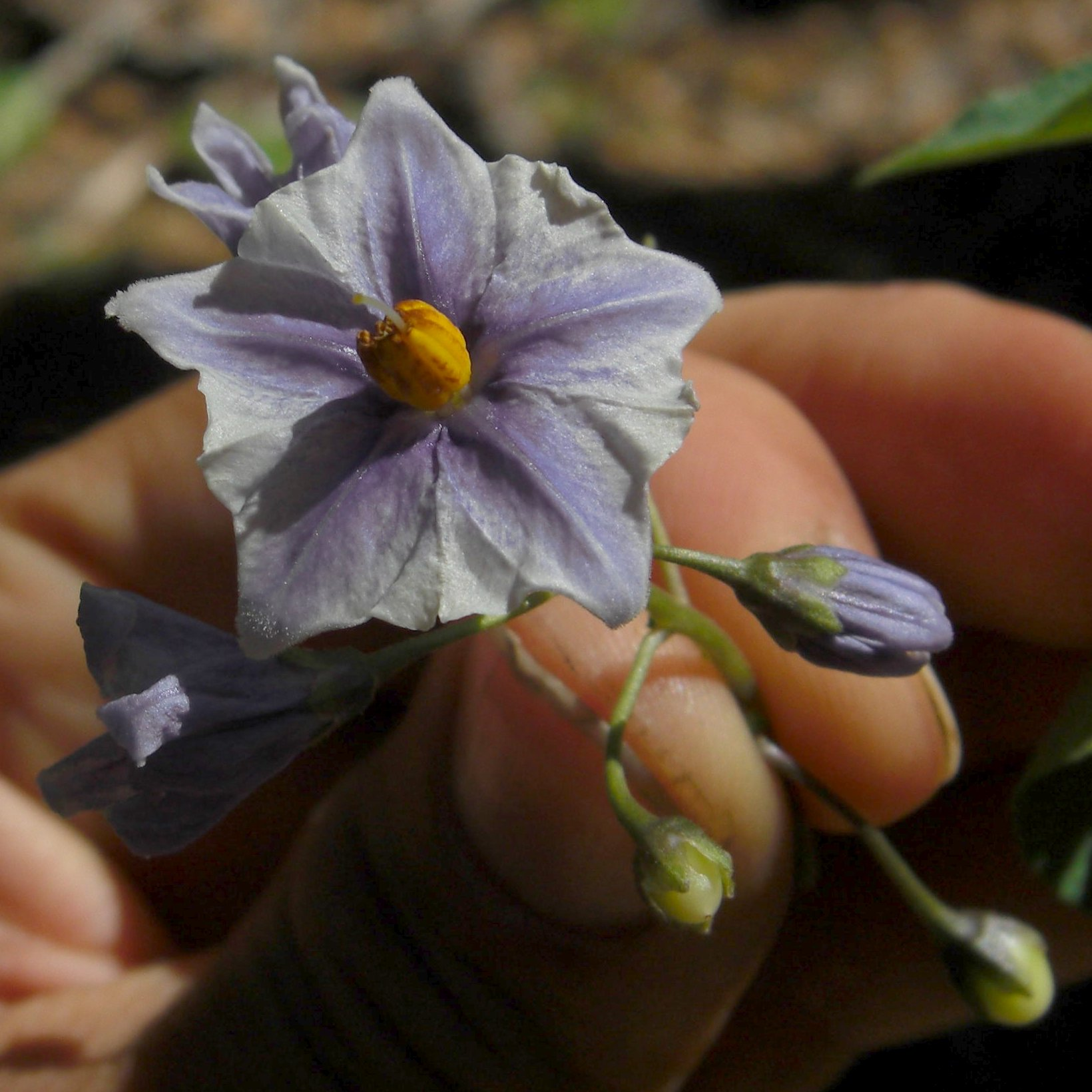 Solanum etuberosa 20081208.23 Parque Nacional Huerquehue, Chile This is apparently closely related to the ancestor of the cultivated potato, S. tuberosa(?) This particular specimen was almost a small shrub. The "interrupted pinnate" leaves are quite distinctive.